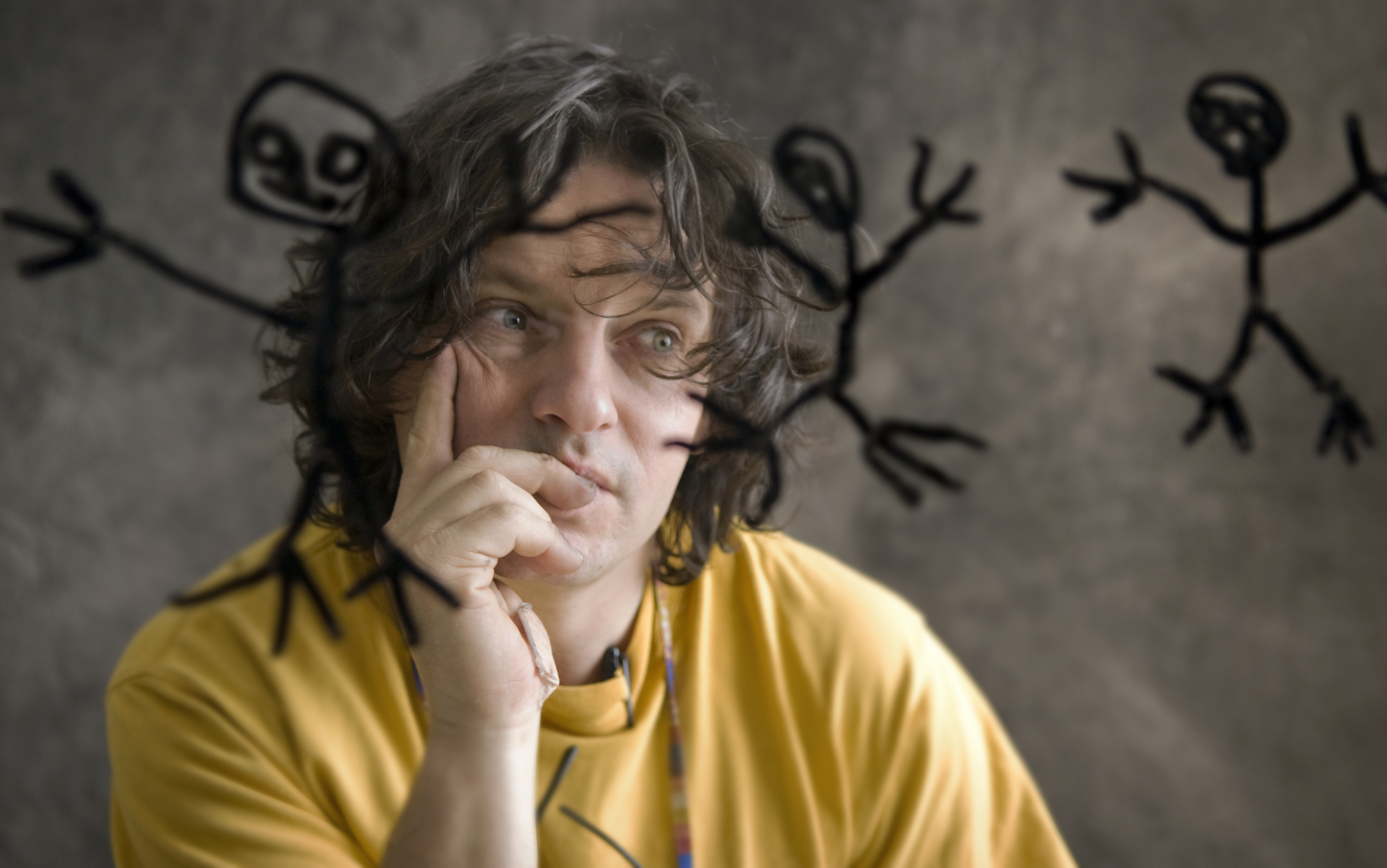 Gilles Porte The photographer Samuel Lahu to Wikipedia editor Butterfly, for amazing article contributions, vandal-fighting, development of the project and for outstanding community skills.